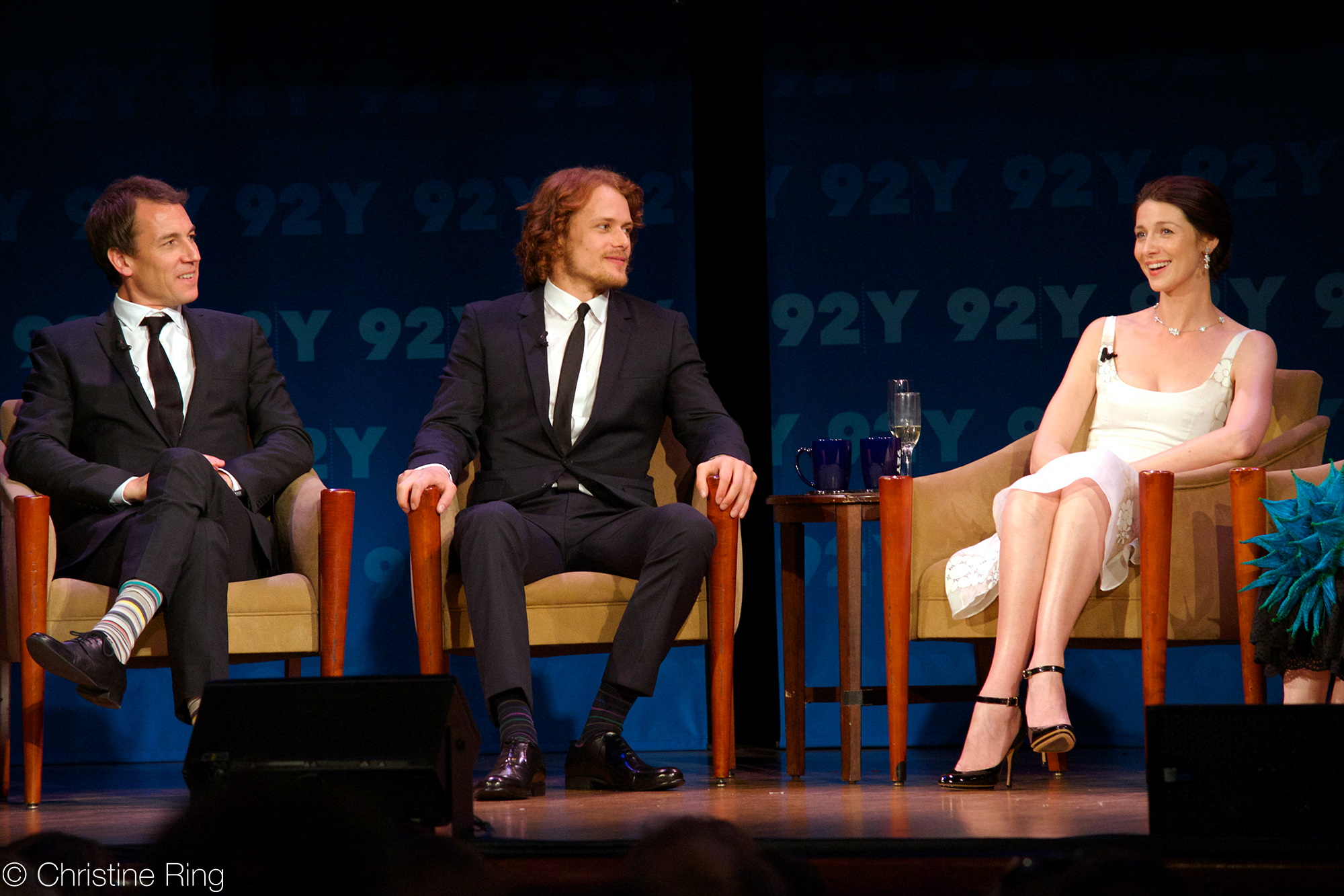 Outlander premiere episode screening at 92nd Street Y in New York